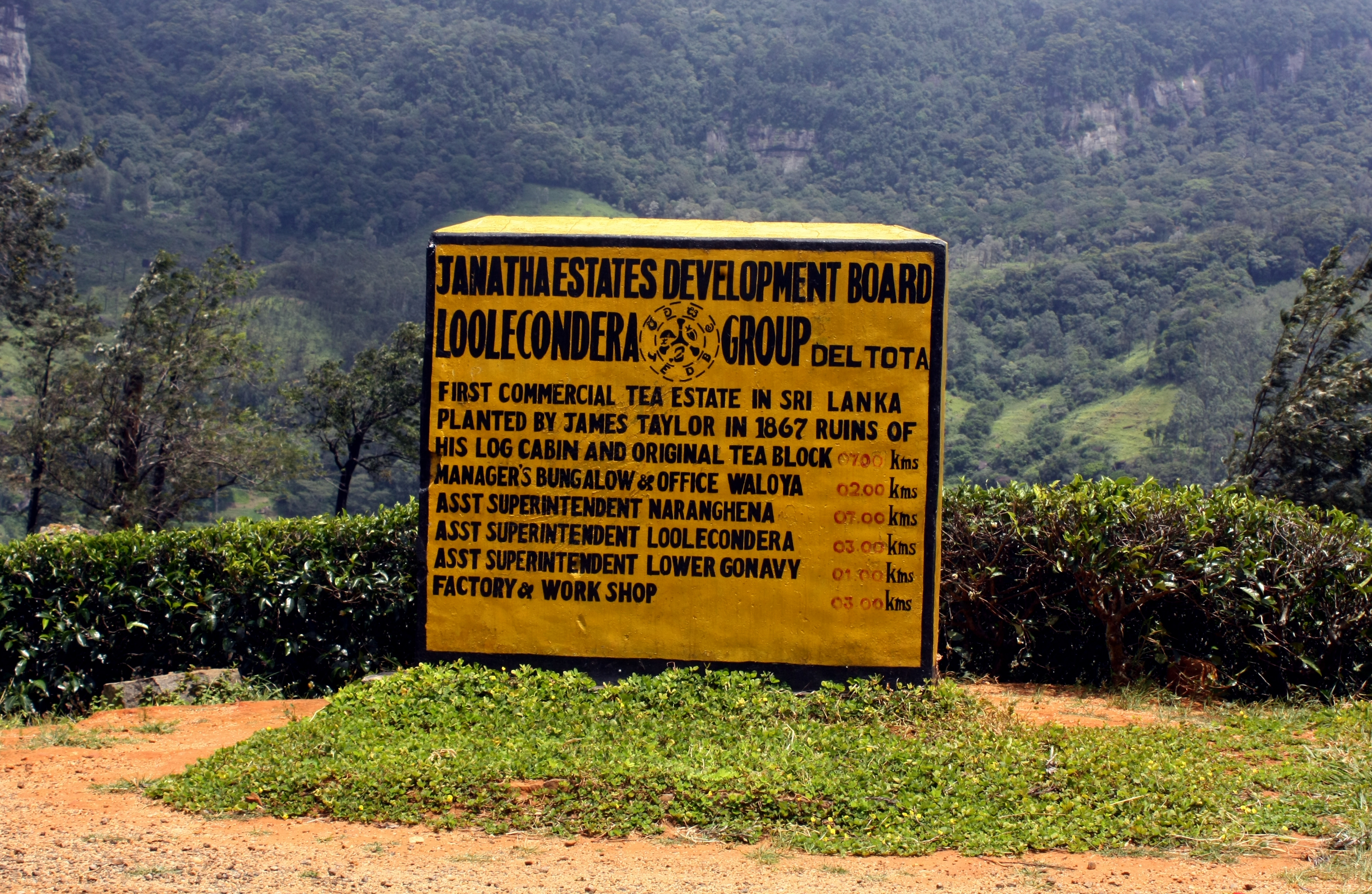 Loolecondera estate nameboard